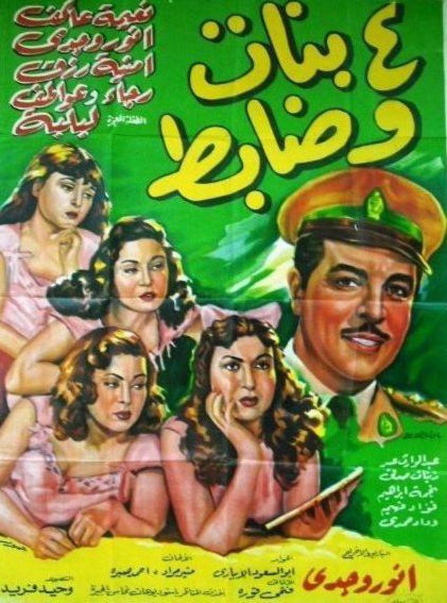 Four girls and an officer (1954)-Movie poster ad